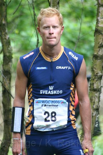 Niclas Jonasson at WOC 2006. Long distance Final